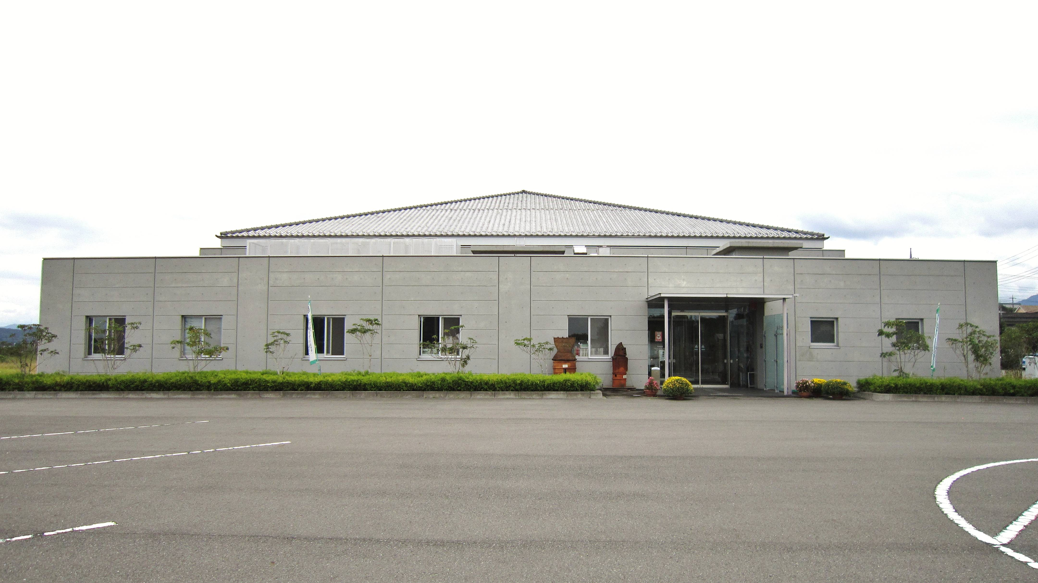 Fujioka history museum.